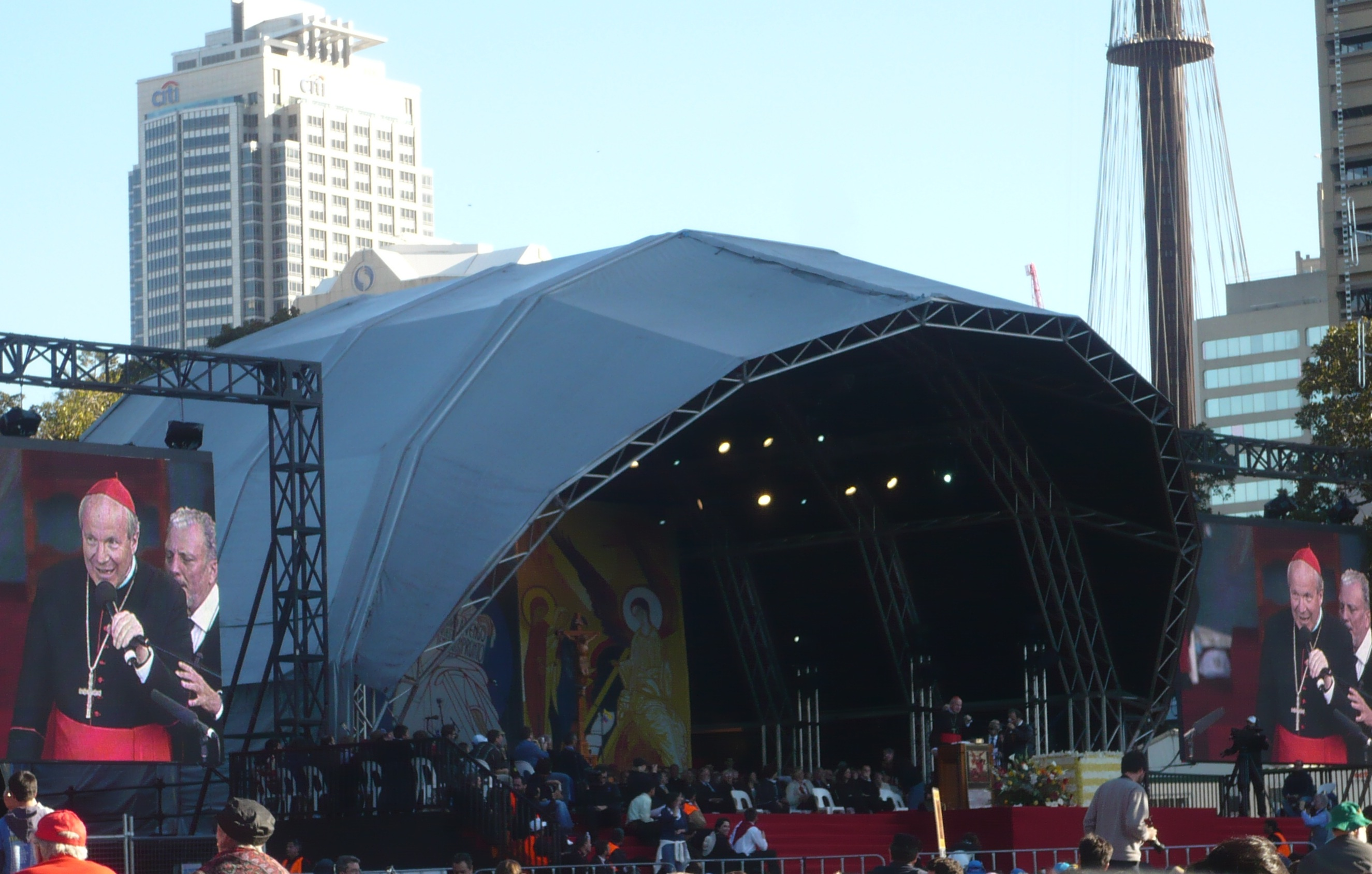 Cardinal Schönborn speaking to the crowds during a vocational meeting of the Neocatechumenal Way at WYD SYD 08